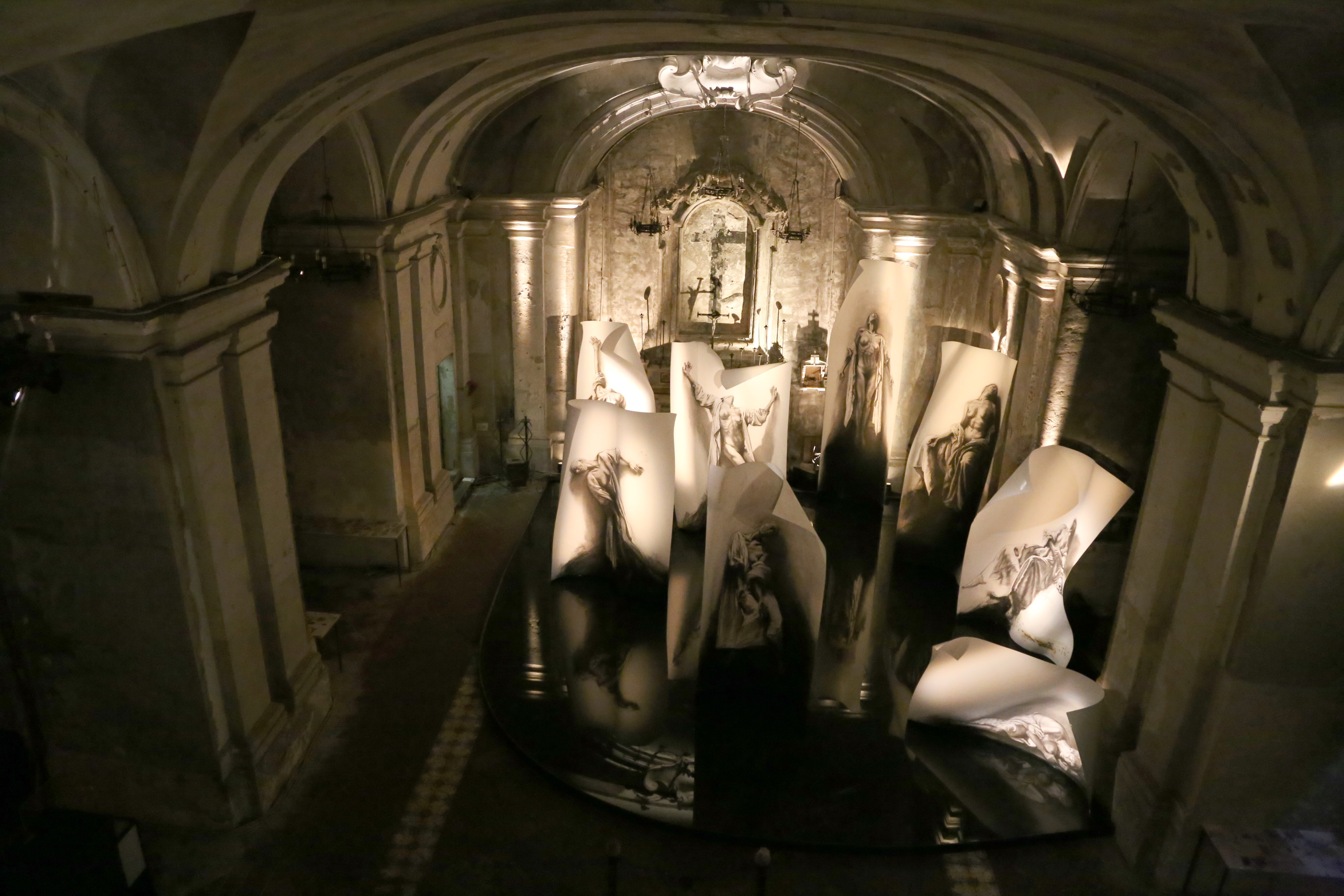 Santa Maria delle Anime del Purgatorio ad Arco - Interior